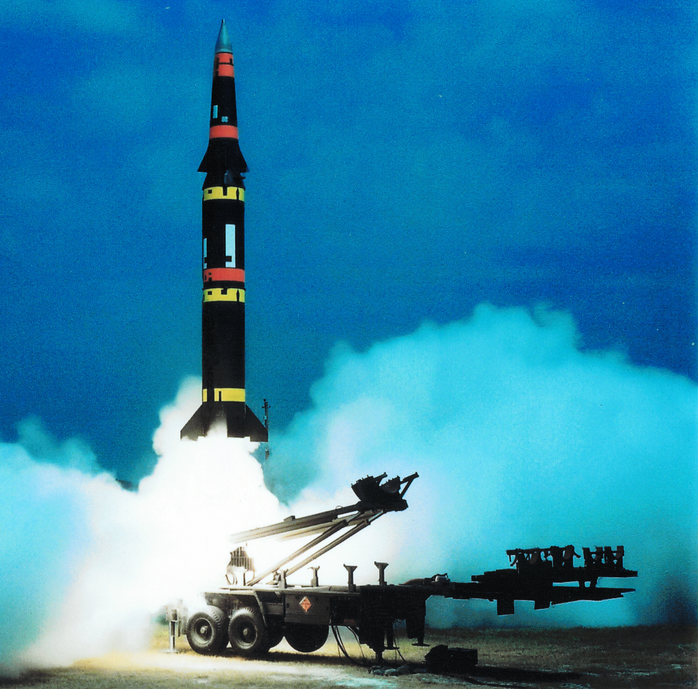 Pershing II test launch from M790 erector launcher. 12th test flight, June 1983, 10:46 AM EDT. Cape Canaveral, Florida.